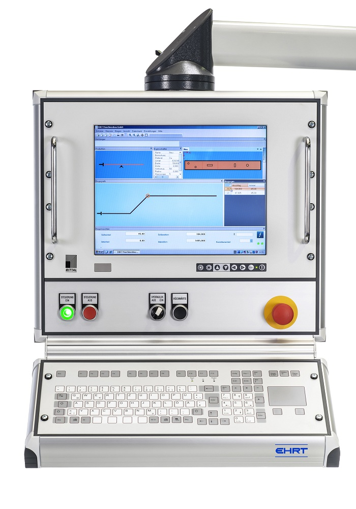 At the displayed program screen of the bending machine it is possible to create programs for bending and punching in one step.